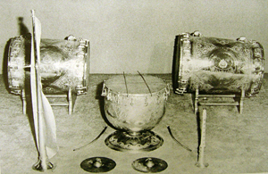 the new Nobat that was used for the coronation of Abdul Rahman II or Riau-Lingga (1885)